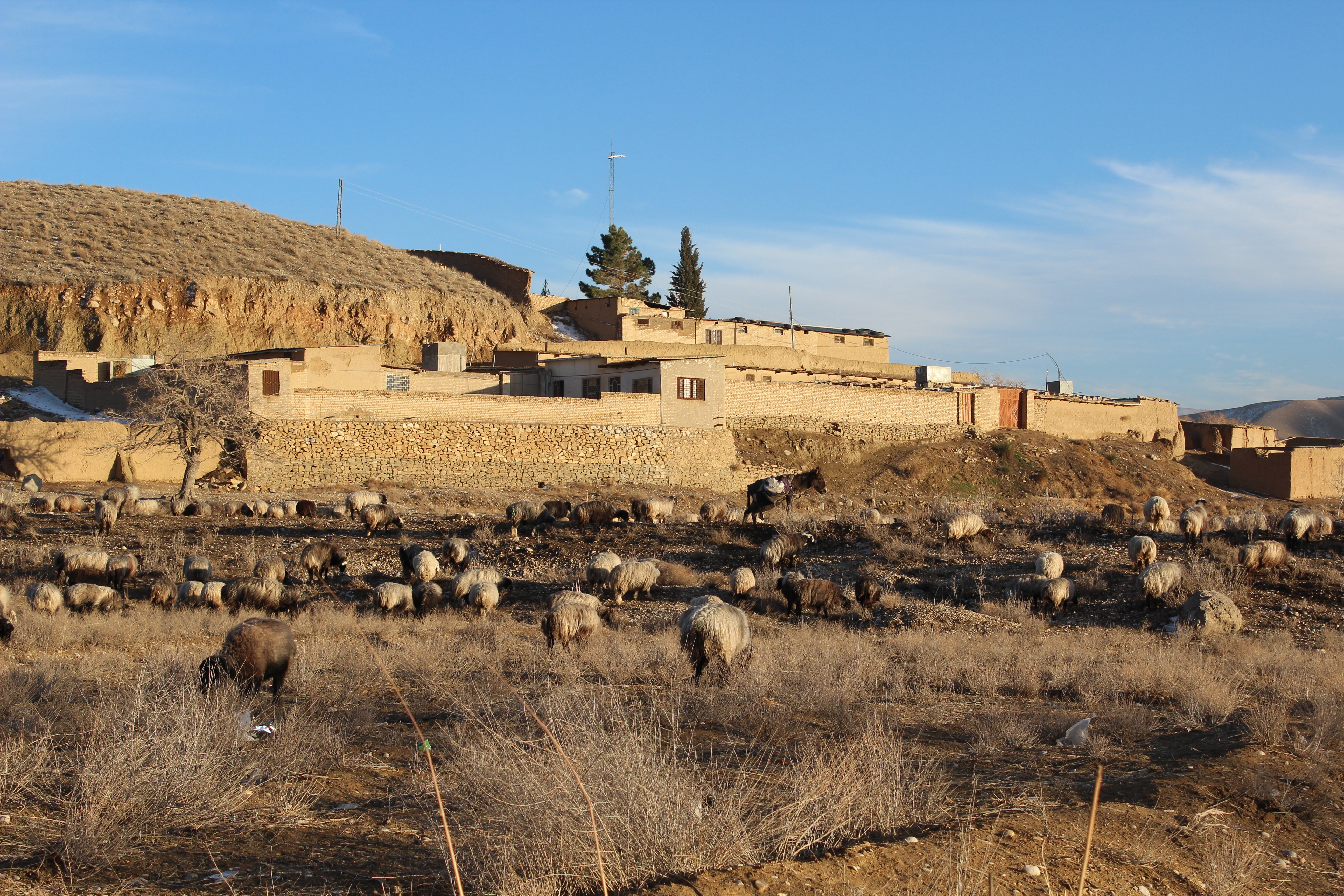 Scenic view